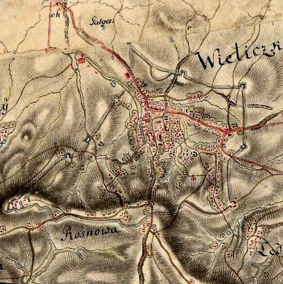 1787 in Wieliczka